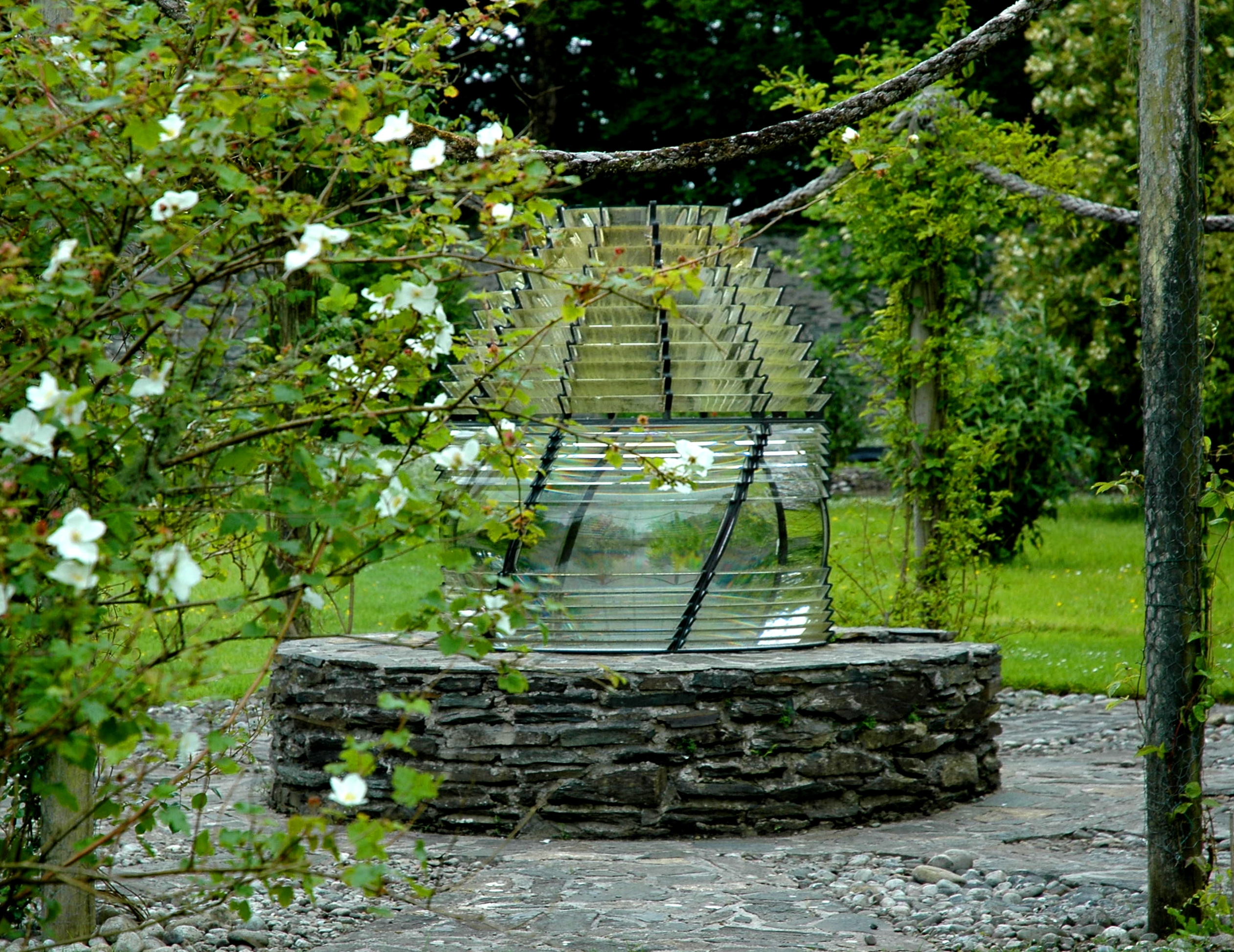 The Fresnel lighthouse lens from Islay now makes a focal point in the old Kitchen garden at Colonsay house GardensLighthouse 2.JPG